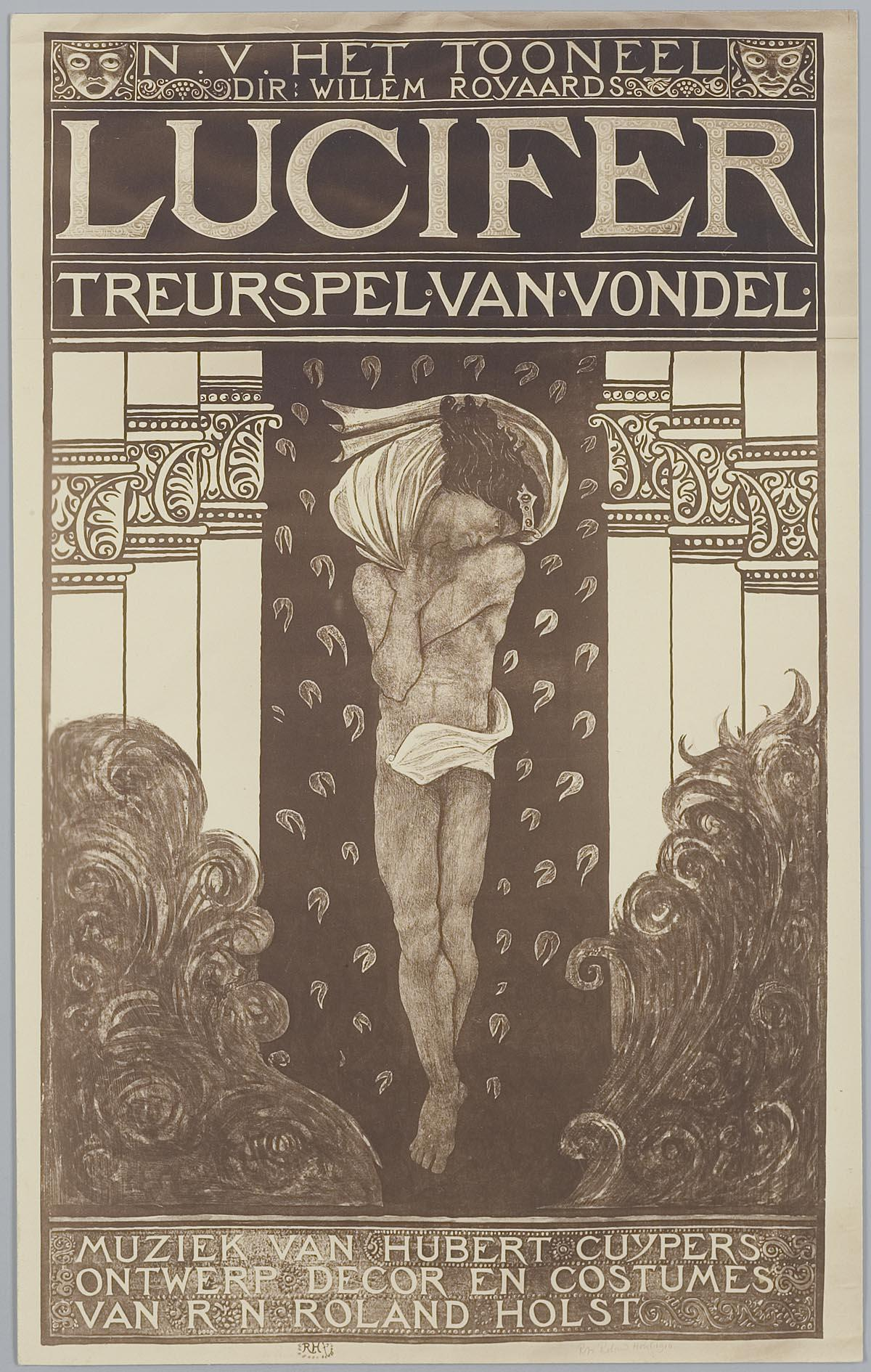 Theatrical poster by Richard Roland Holst for the 1910 staging of Joost van den Vondel's tragedy "Lucifer"